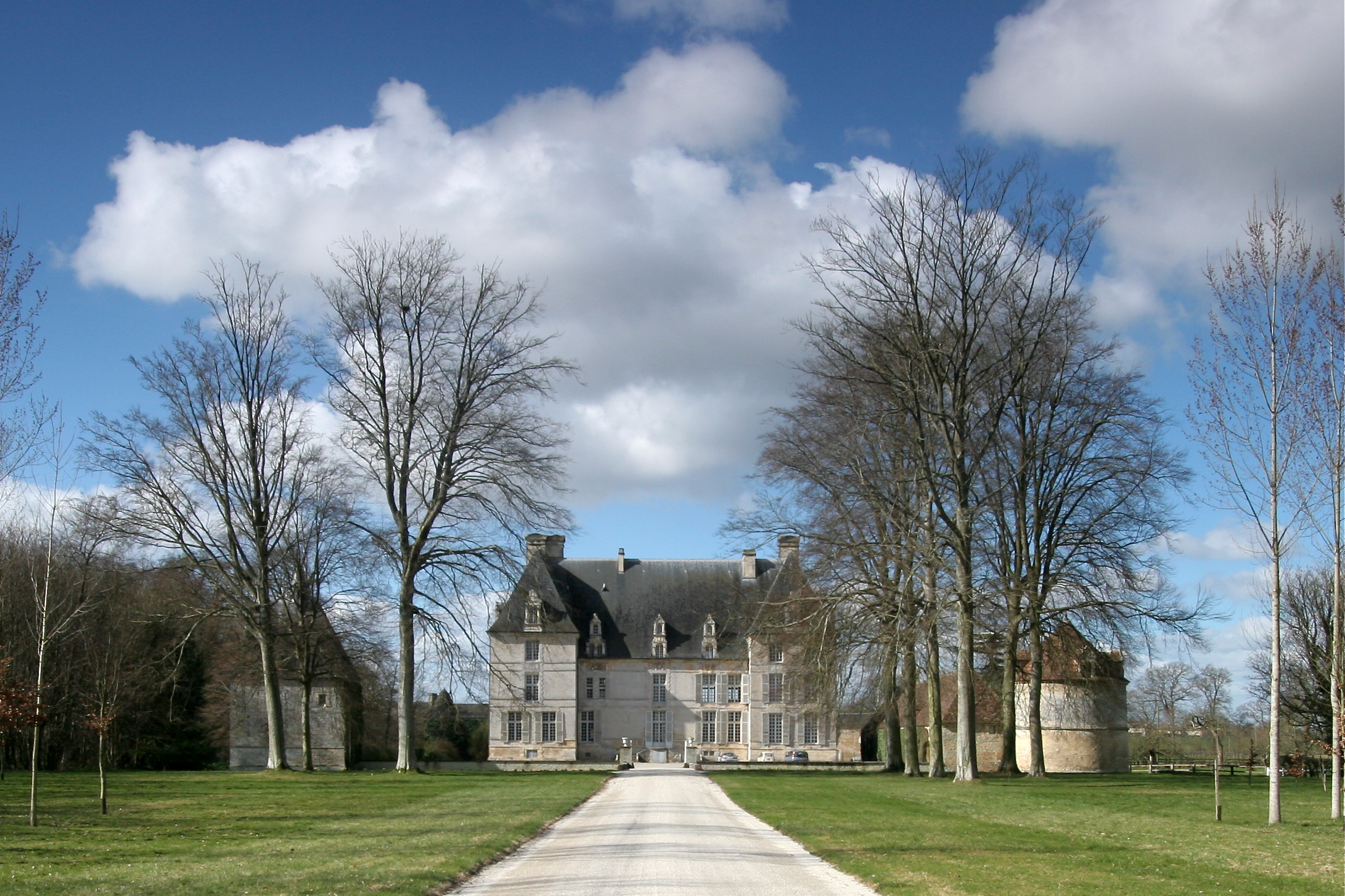 Castle of Aubigny (Calvados, France), listed building.